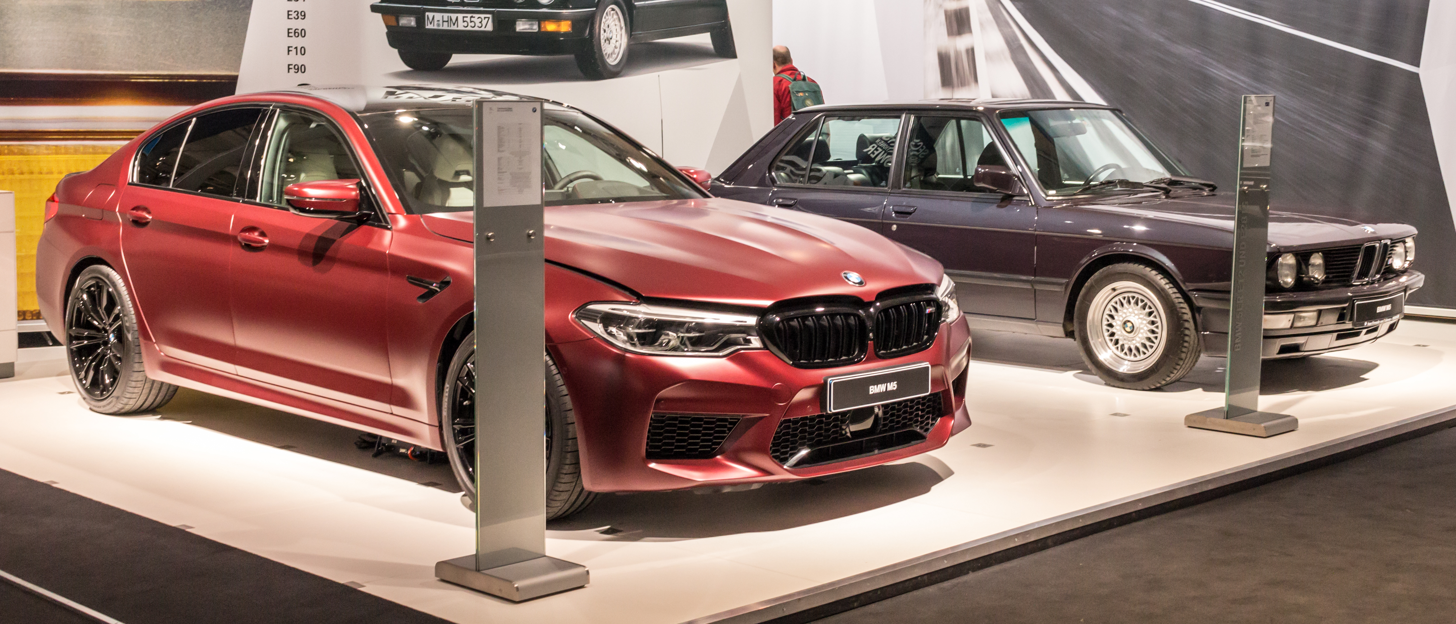 BMW, Techno-Classica 2018, Essen